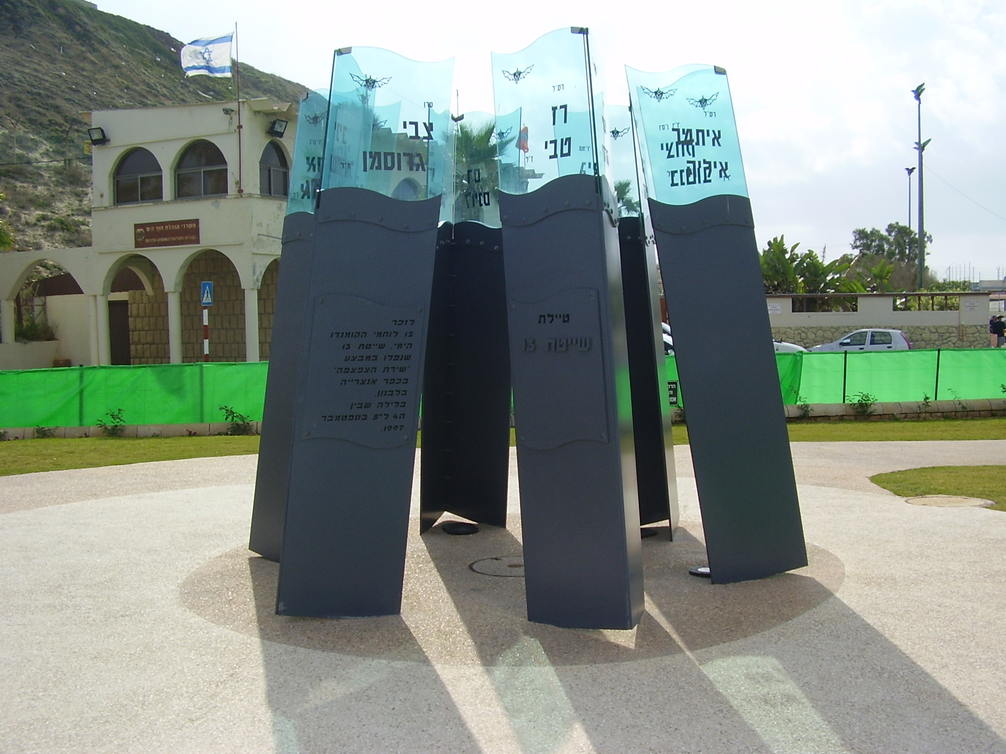 shayetet 13 memorial in rishon lezion, israel אנדרטת שייטת 13 (אסון השייטת) בחוף ראשון לציון